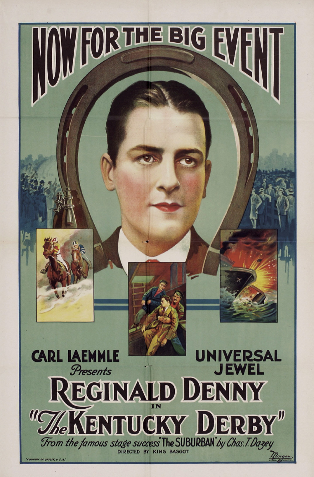 Poster for the American drama film The Kentucky Derby (1922).